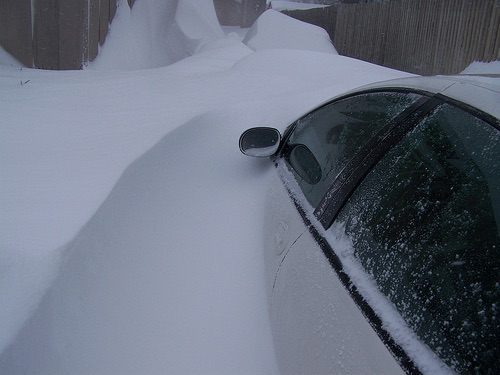 Accumulated snow covers car in driveway of Pleasant Prairie Wisconsin residence.